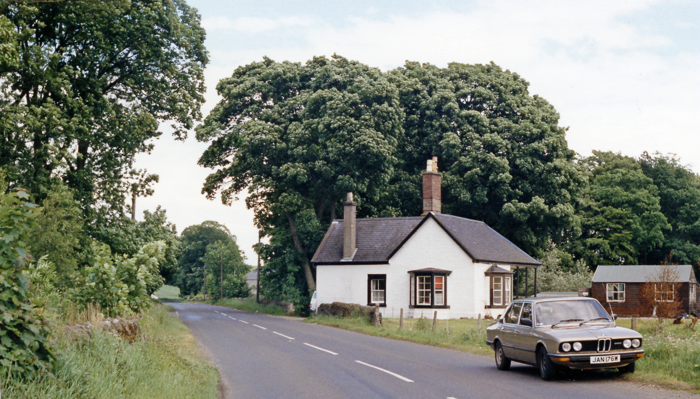 Clocksbriggs station, remains, 1988. View eastward, towards Bridge of Dun and Aberdeen: ex-Caledonian former Perth - Aberdeen main line, closed from 4/9/67. The station was closed 5/12/55 (goods 15/6/64). As can be seen the station became a private house - and is advertised as a B&B.